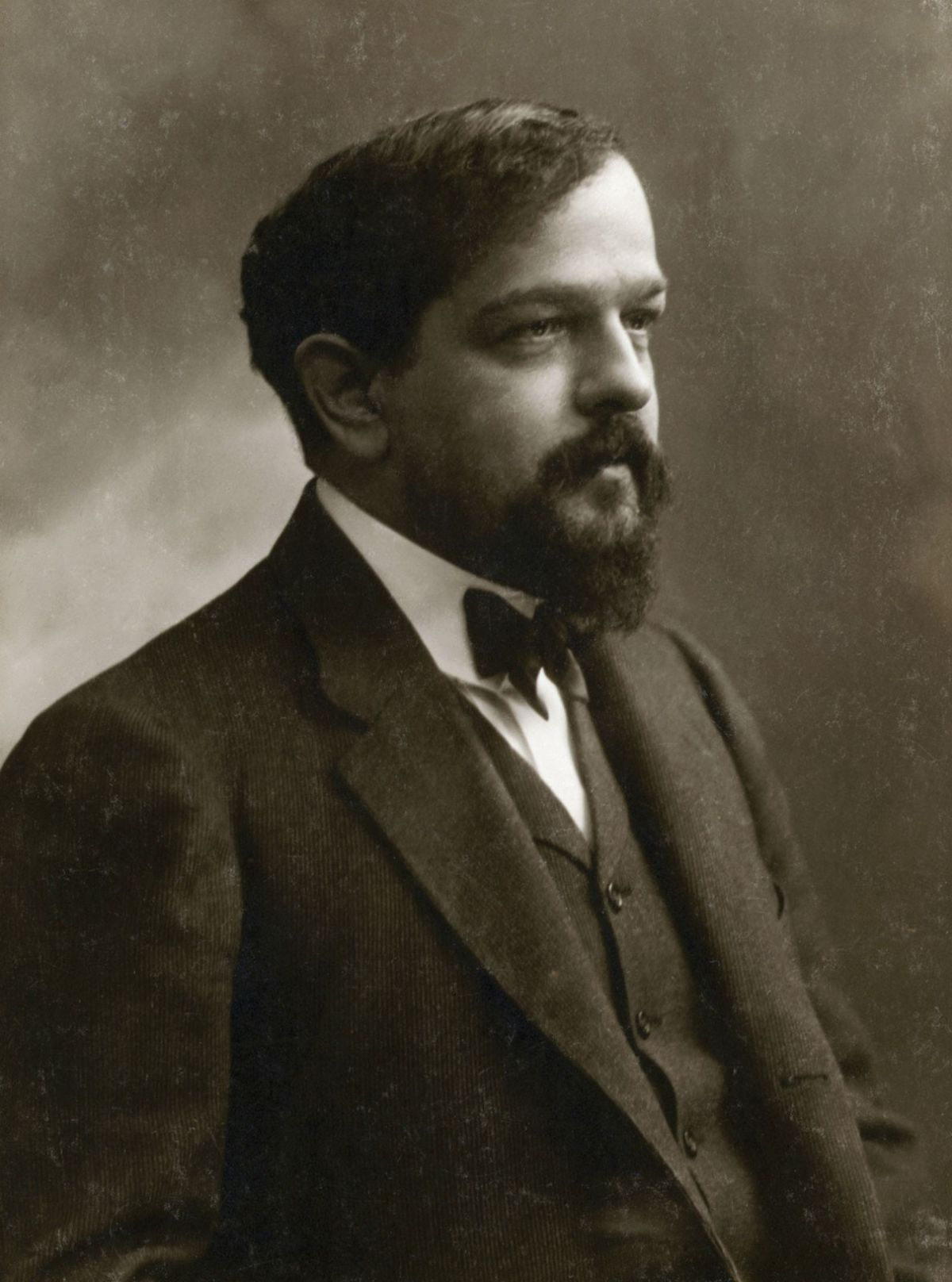 Photograph of Claude Debussy